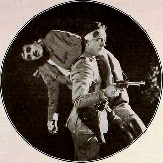 Still from the American film The Hope (1920) with Jack Mulhall carrying Frank Elliott, on page 4169 of the May 15, 1920 Motion Picture News.